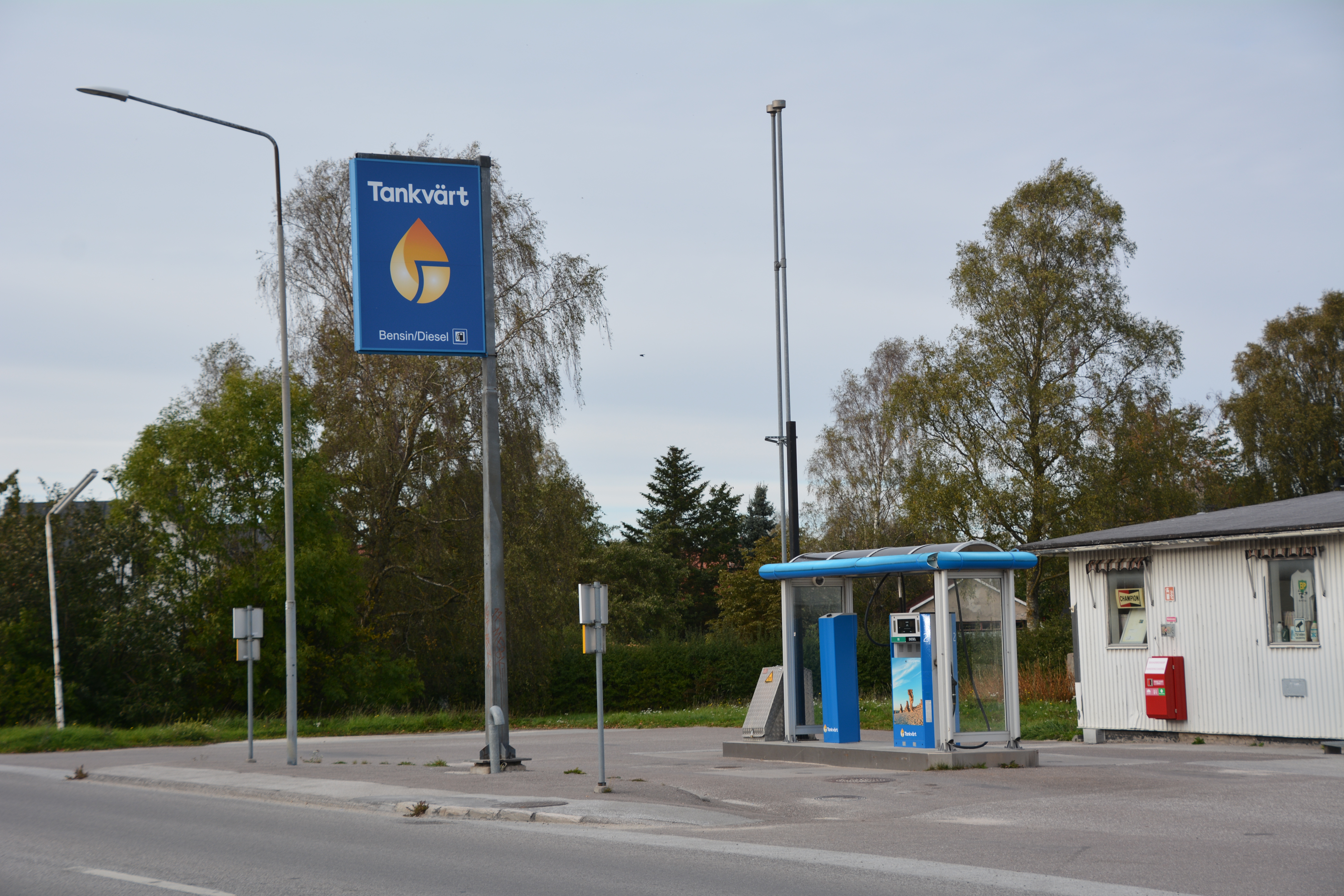 Petrol station, Tankvärt, Roma, Gotland, Sweden